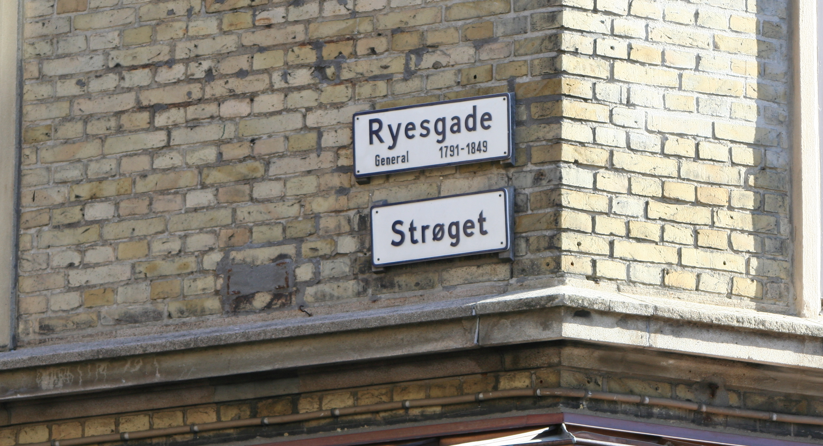 Street signs in Aarhus